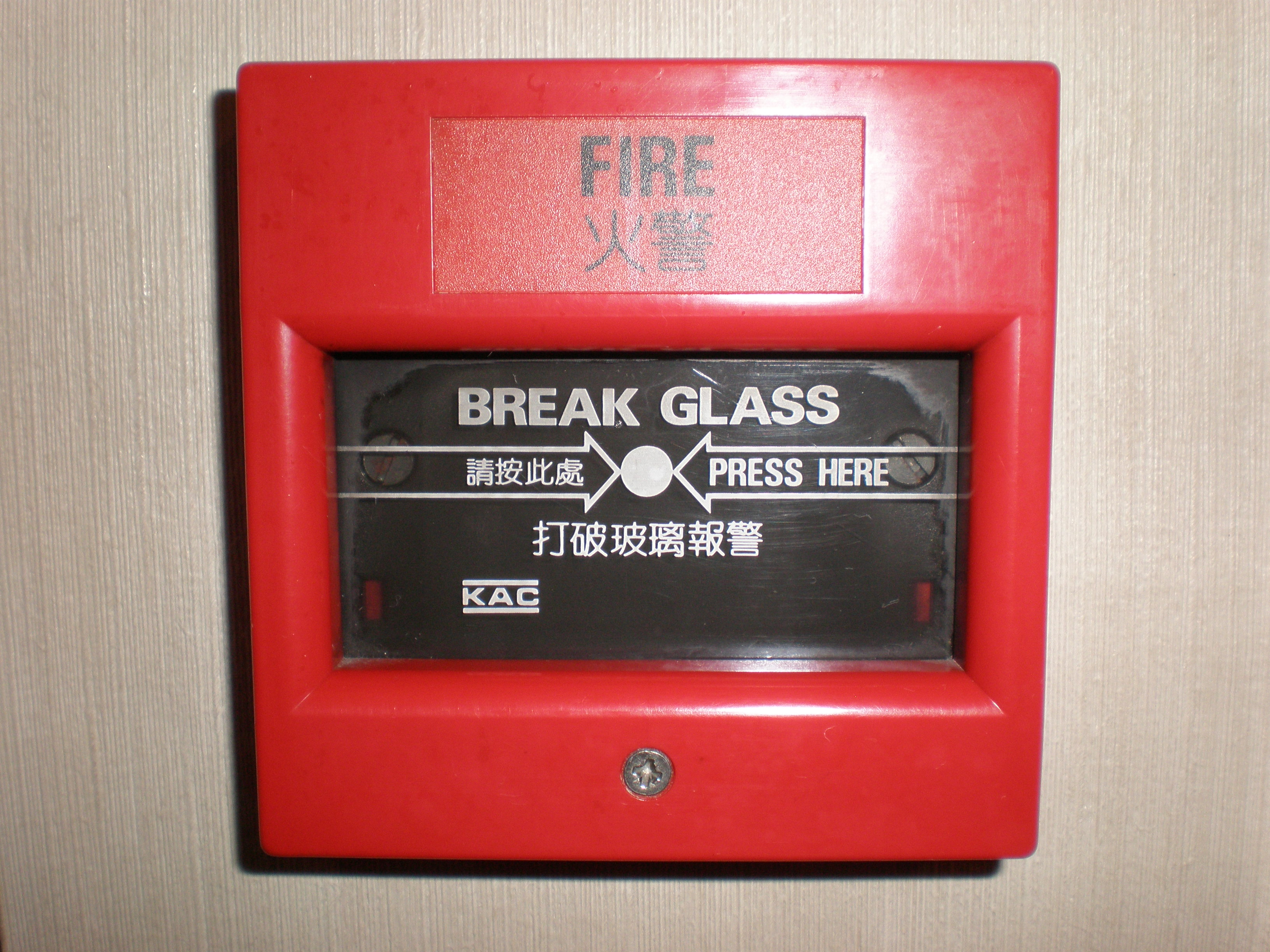 A KAC fire alarm found in Kowloon, Hong Kong.